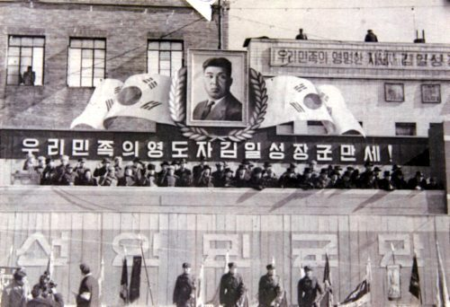 Foundation ceremony of the Korean People's Army